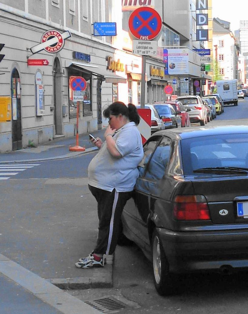 Woman leaning against car.